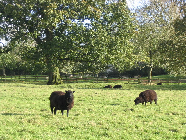 The flock of Black Welsh Mountain sheep on the Herriard Estate has become a tradition.